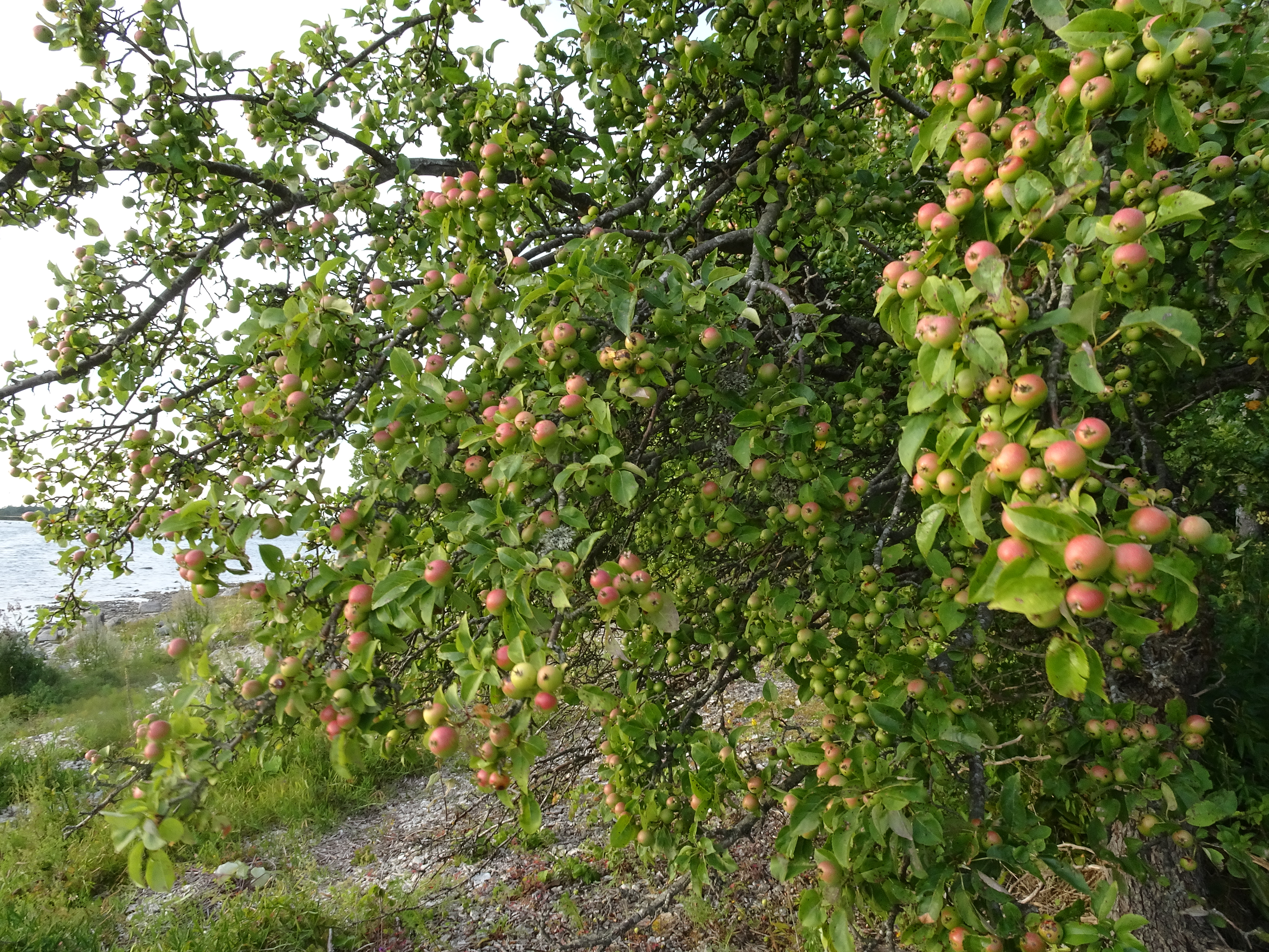 Malus sylvestris - crabapple tree on the west coast of Estonia (Puhtu)